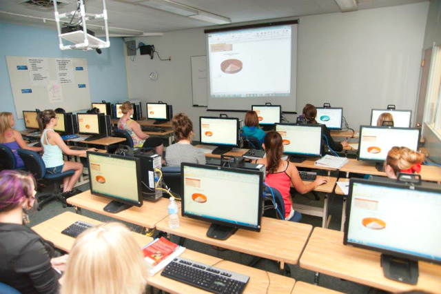 Students learn the latest Microsoft-approved curriculum in state-of-the-art facilities.